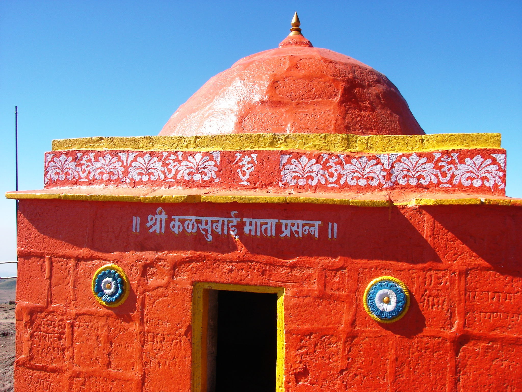 Kalasubai is the tallest peak in Maharashtra state in India